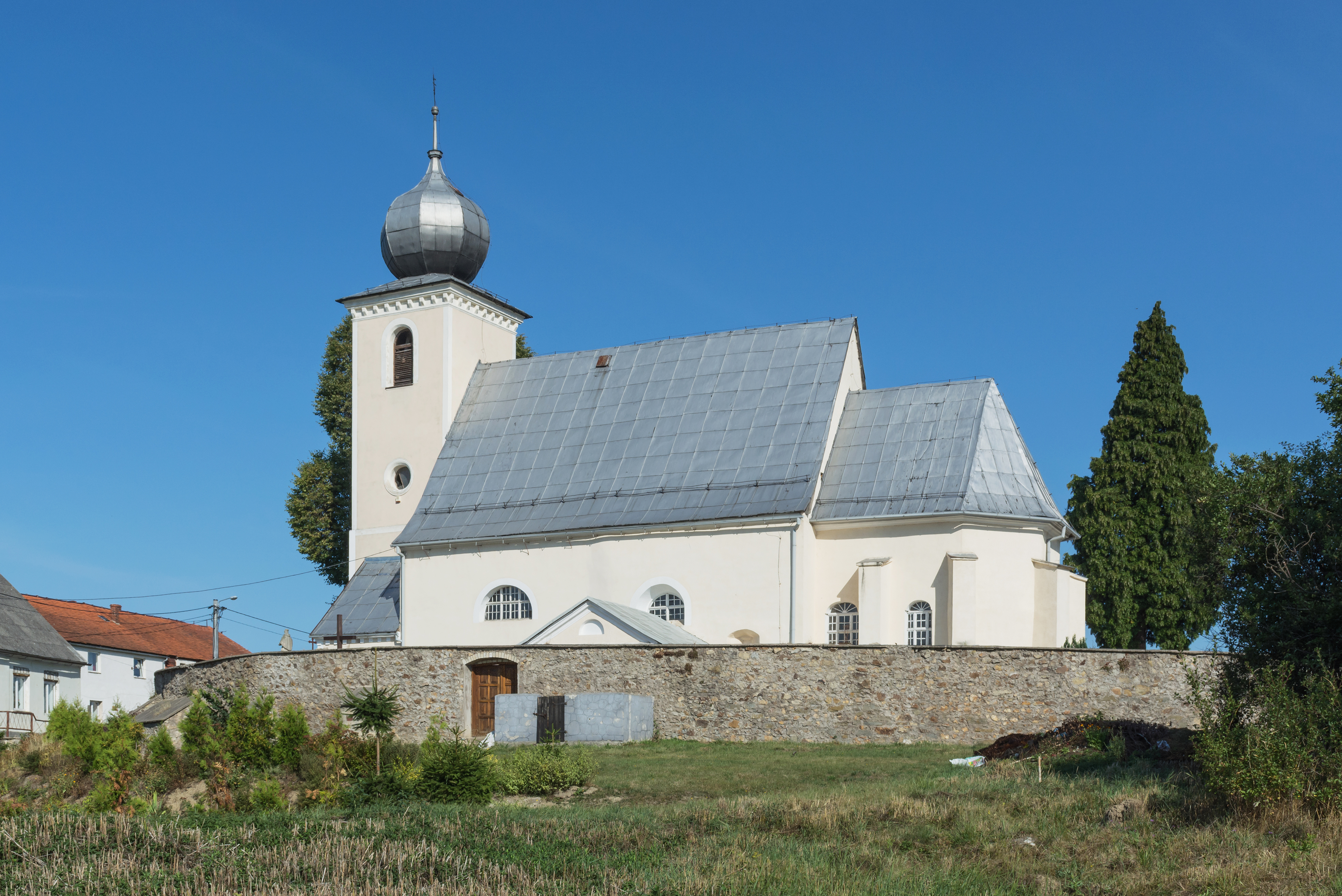 Saint Nicholas church in Starków